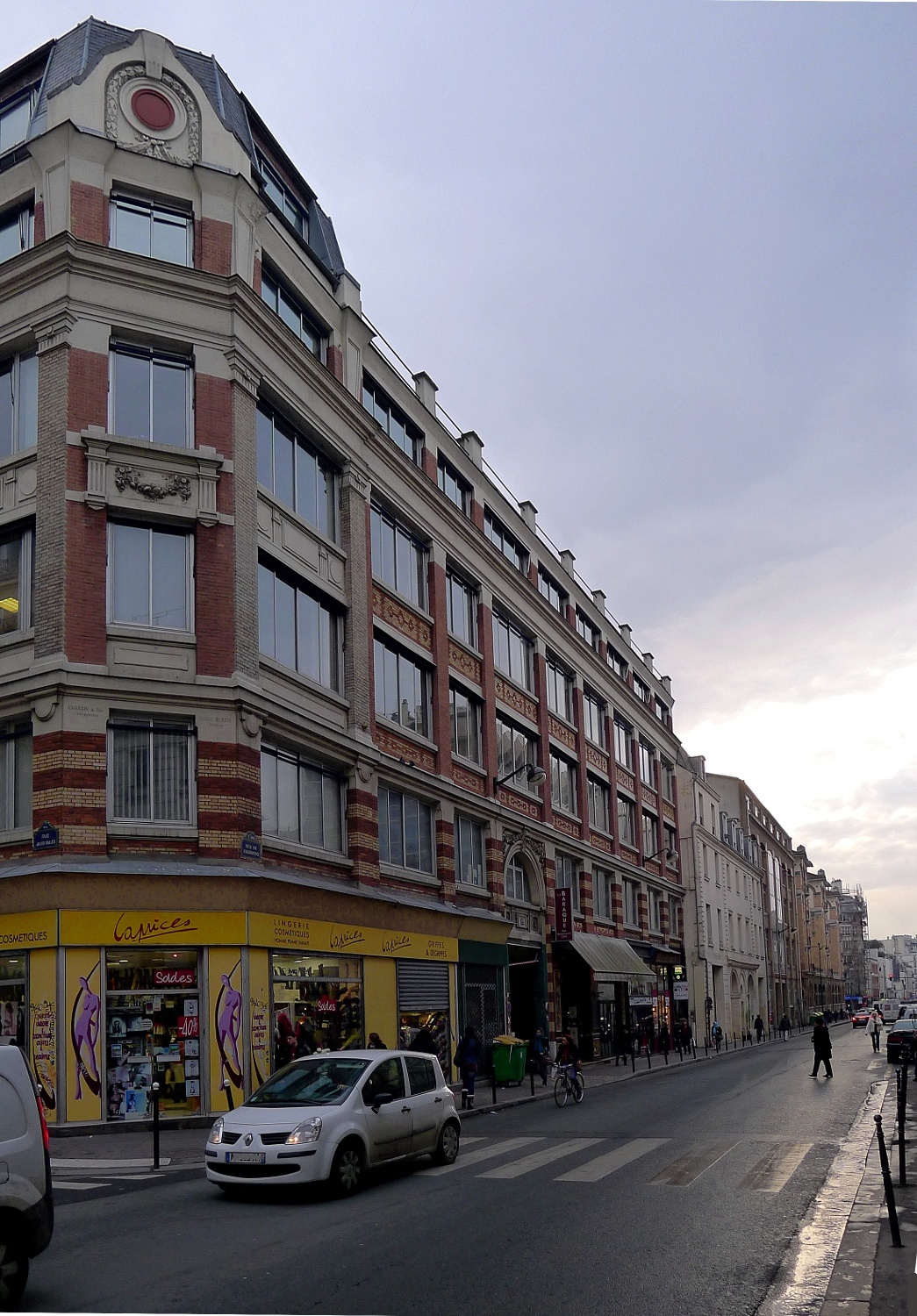 Charonne street - Paris